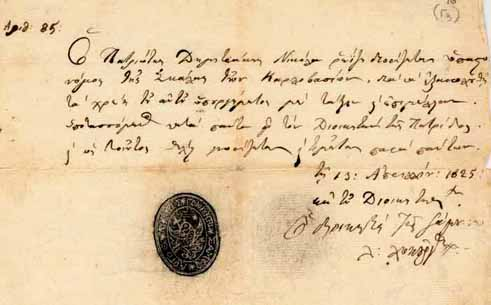 Document of Lykourgos Logothetis, signed "Commander L. Lykourgos"